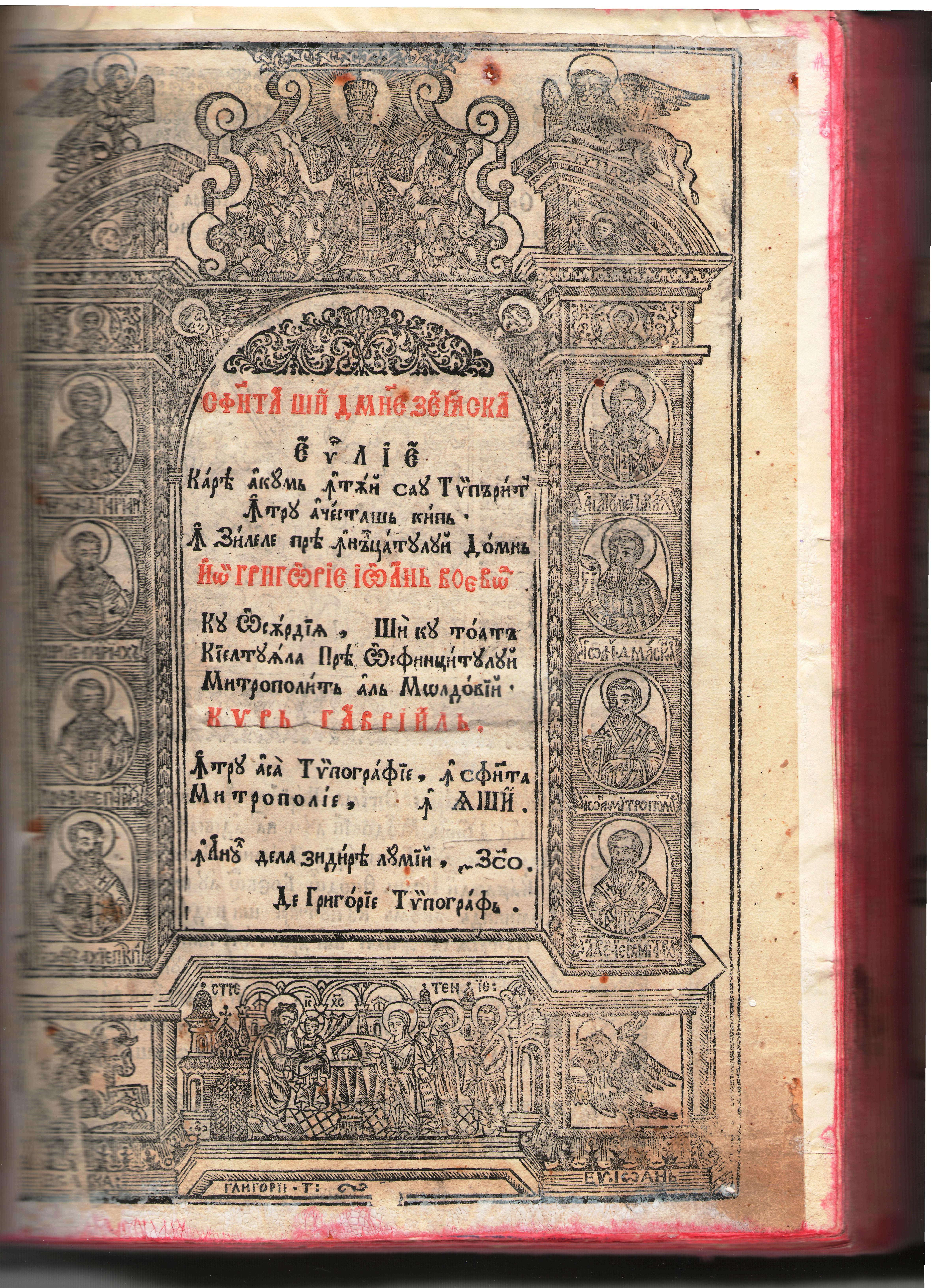 Sfânta și Dumnezeiasca Evanghelie, Iași, 1761